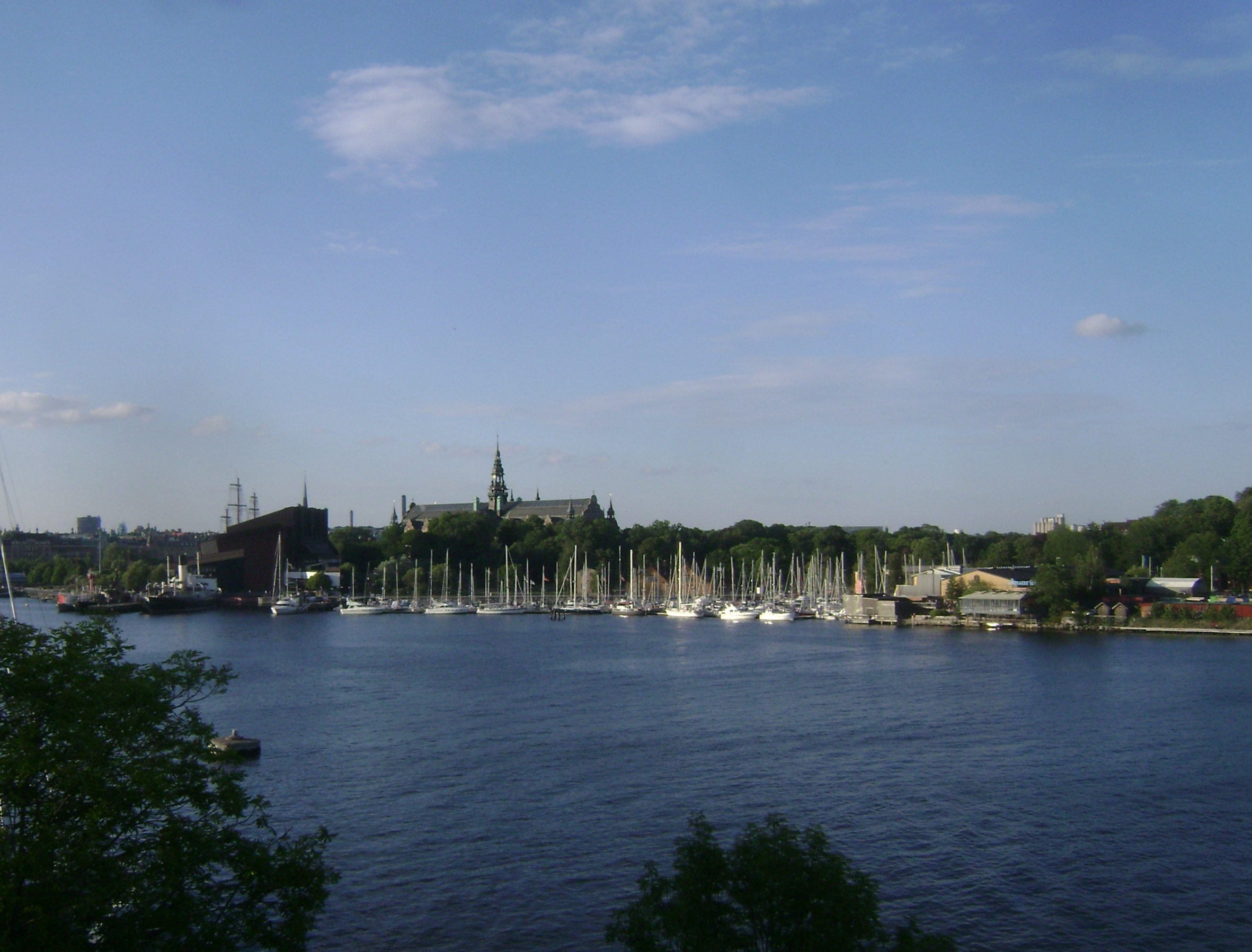 Sweden. Stockholm. Djurgården